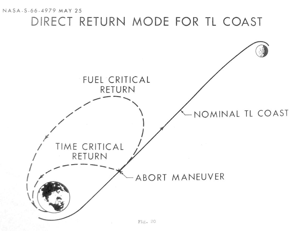 During the Trans-Lunar Coast phase of an Apollo lunar landing mission, the Direct Abort is identified as the primary emergency return mode unless the spacecraft has entered the proximity of the lunar sphere of influence (SOI), after which point the "delay to post-pericynthion abort" becomes primary. The Direct Abort can be accomplished with large burn to a time-critical return trajectory, or with a smaller burn to a fuel-critical return trajectory. See text at [1]